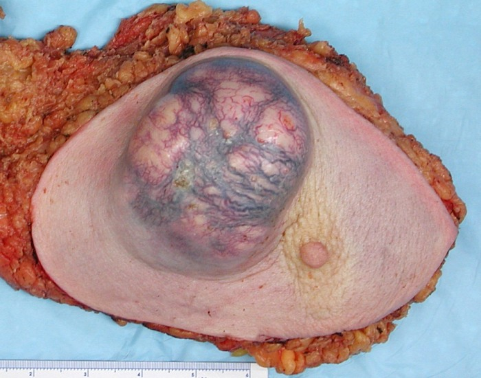 External (gross) appearance of a mastectomy specimen containing a very large invasive ductal carcinoma of the breast.